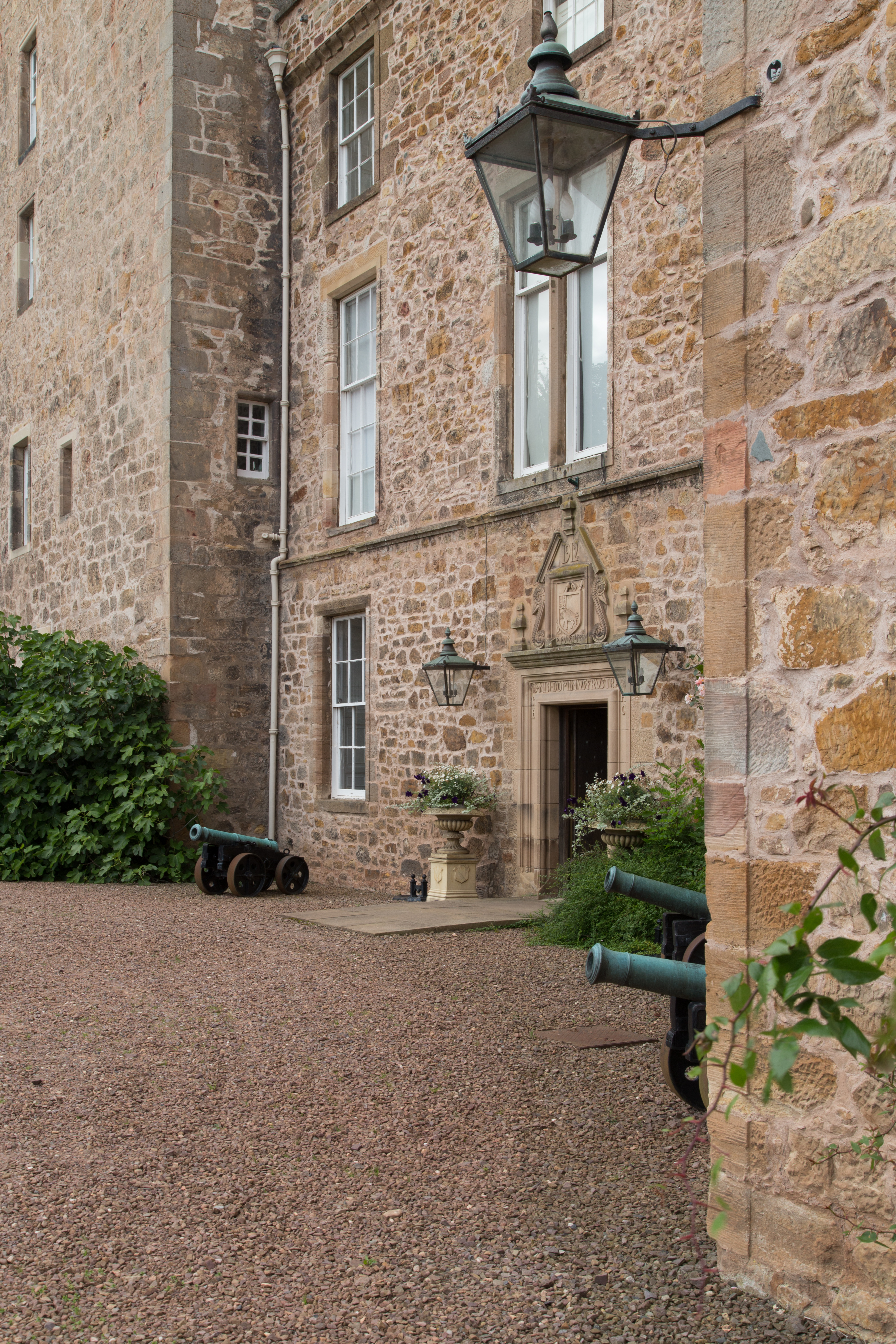 Lennoxlove House Wikidata has entry Q6522893 with data related to this item.